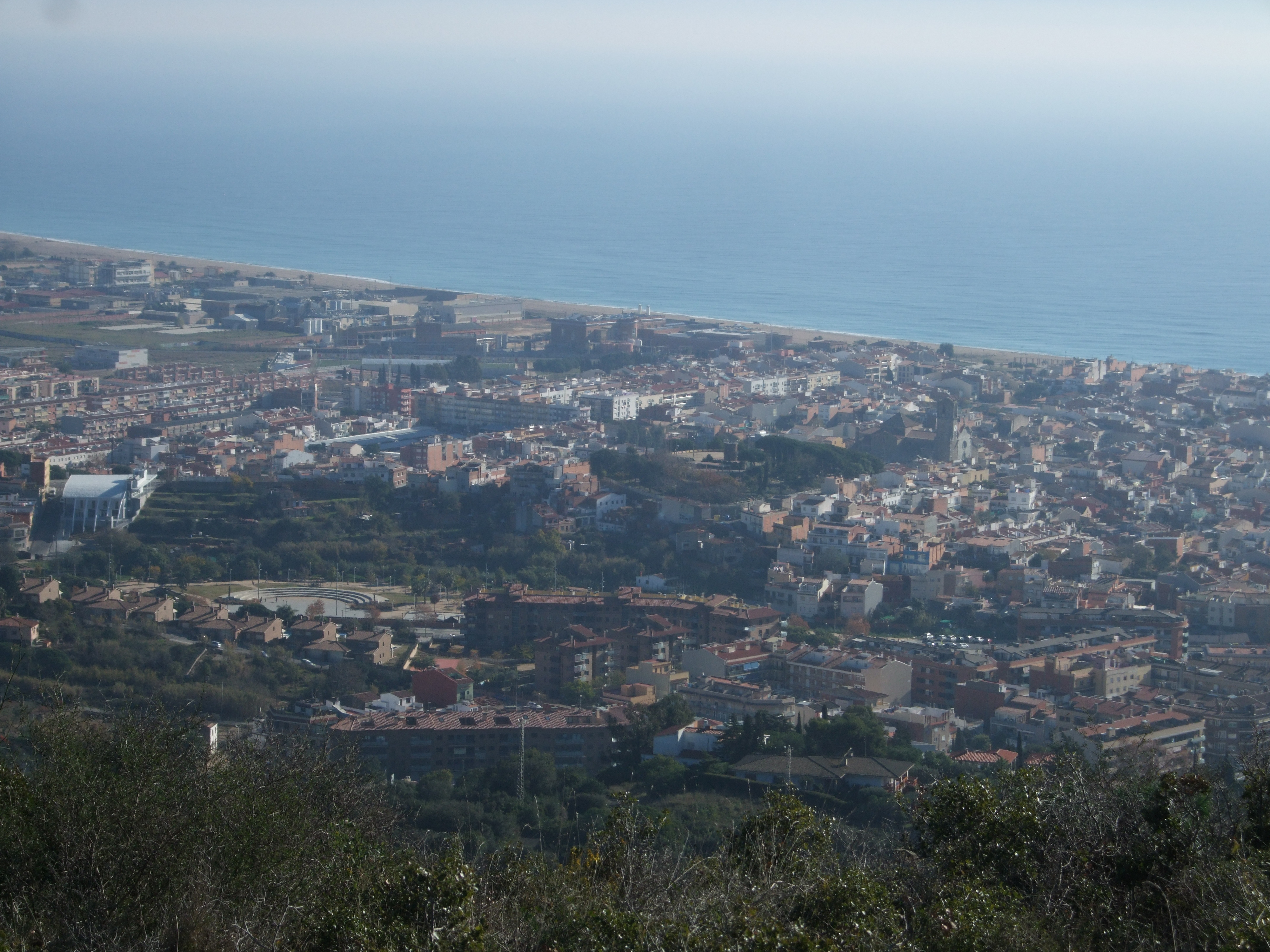 Malgrat de Mar from Turó d'en Serra tophill.